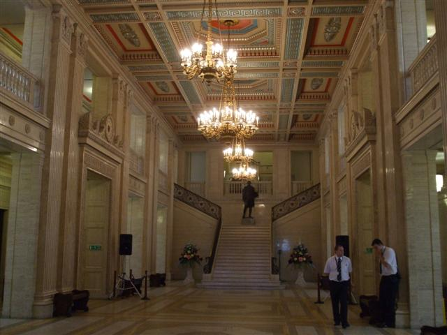 Entrance Hall, Stormont Parliament Photography by the general public is only permitted only in the main hallway which is richly decorated with marble floors and walls, the latter displaying impressive carvings, which were the result of Italian craftsmen spending several years on the job. Most of these chaps, if not English speaking before they arrived in Northern Ireland, were fluent in the language with Belfast accents before they left the province, and possibly made off with some of the local lasses. Also of note are the chandeliers hung from the ceiling and the bronze statue of Lord Craig, the first prime minister of Northern Ireland, at the top of the marble stairway. The statue is life-size and seems large, but he was a large man, being six and a half feet tall.